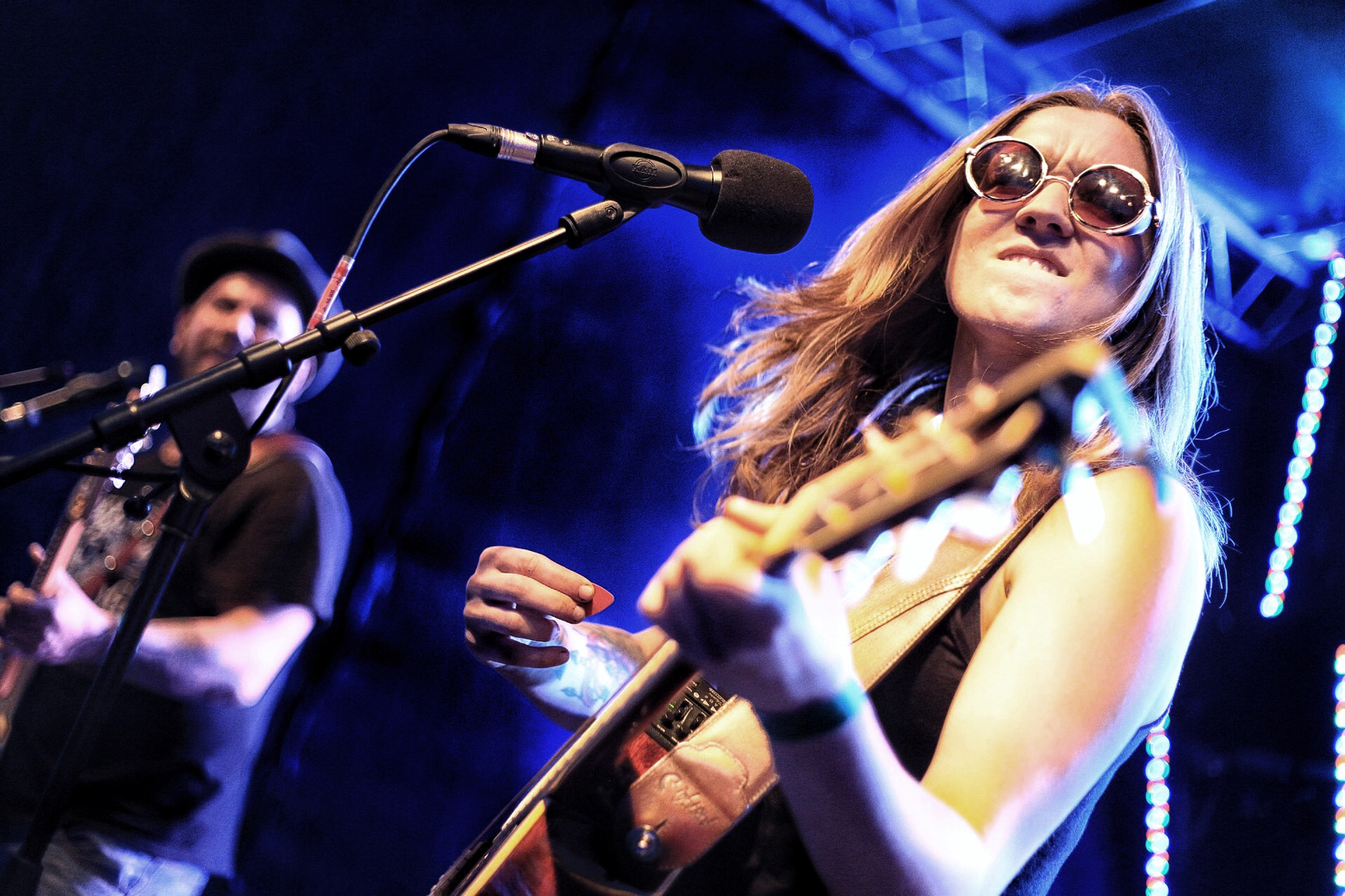 Joon Wolfsberg live on stage in Dresden in 2015.